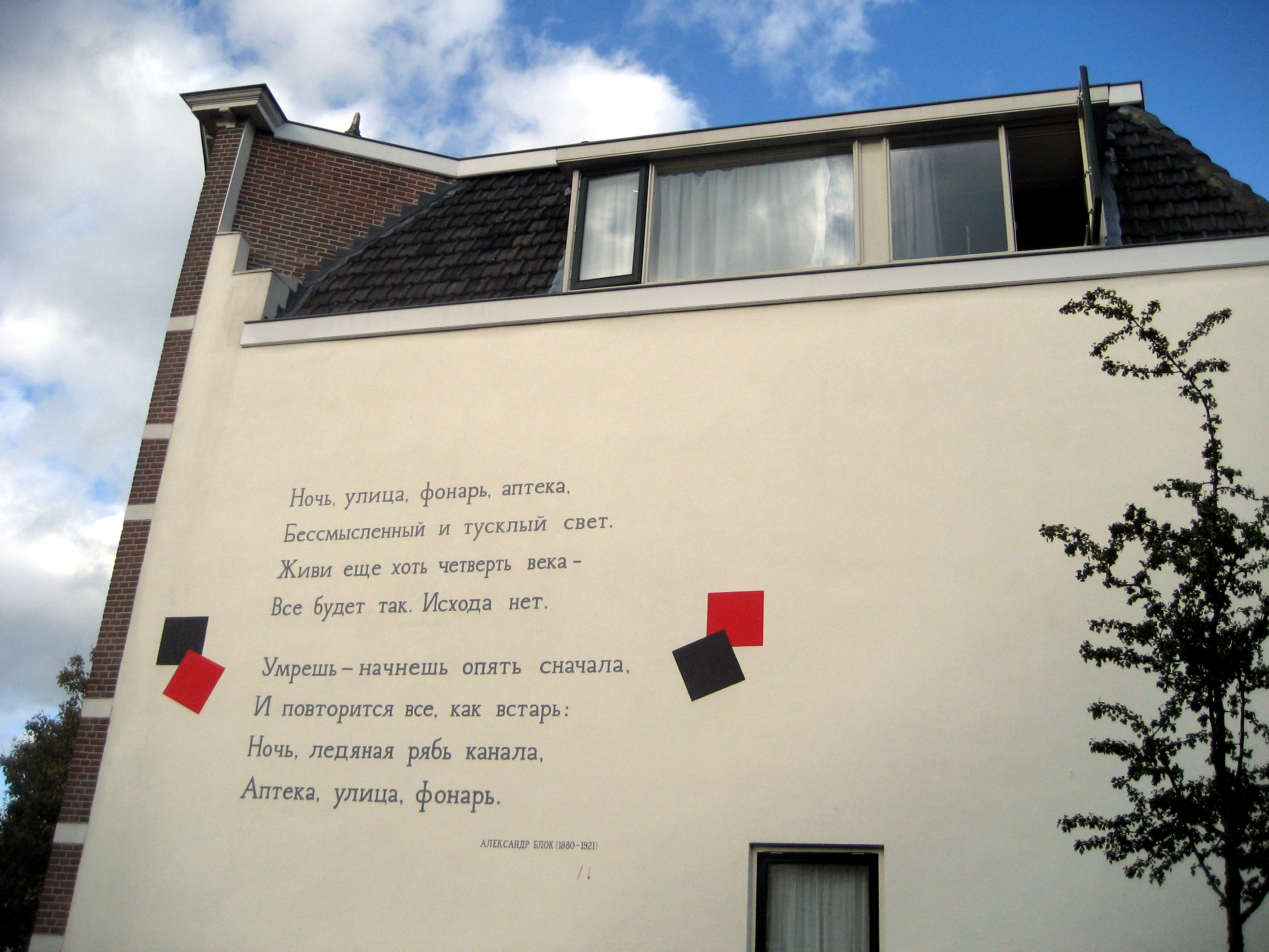 Aleksandr Blok: Noch, ulica, fonar,apteka. Poem on a wall in Leiden (The Netherlands)